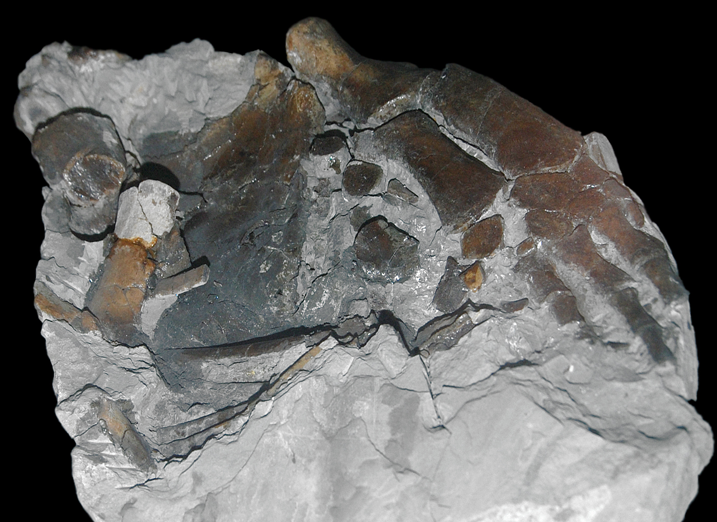 Babes Bolyai paleontology museum a paper about this and the following specimens